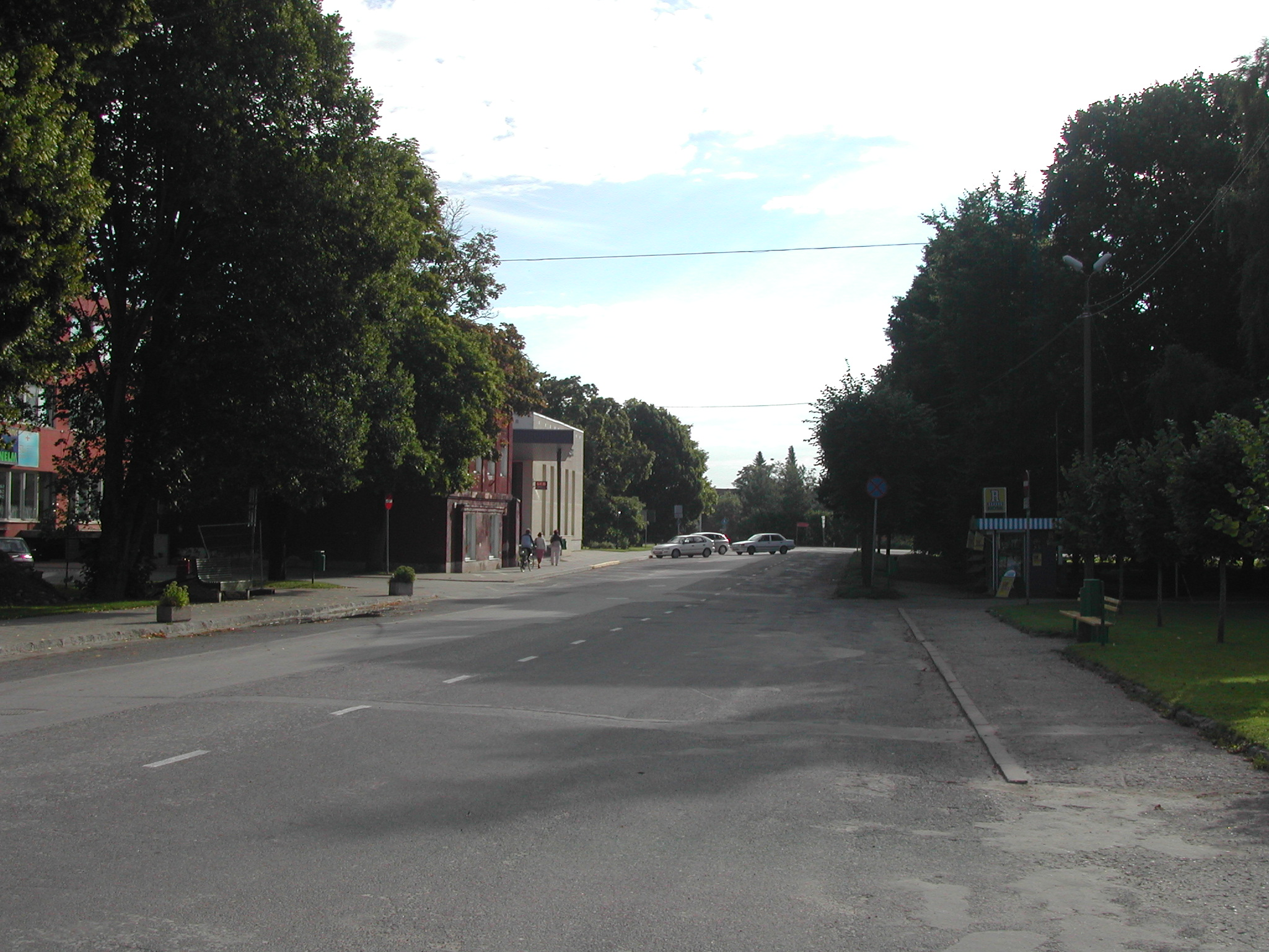 Jõgeva, Estonia